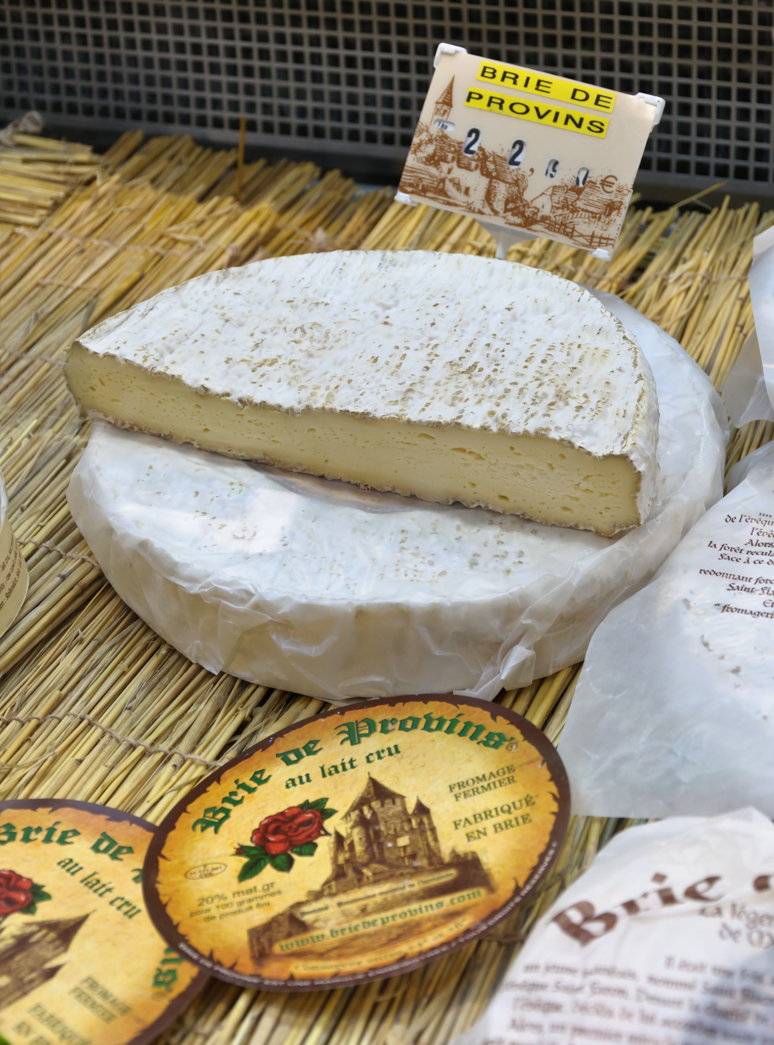 Brie de Provins, here on sale on the market of the town of Provins, Seine-et-Marne, France.